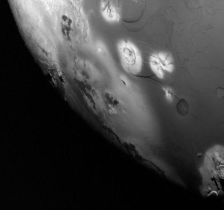 Violet filter image of the Masubi volcano on Jupiter's moon Io, acquired on March 5, 1979 at 14:37:29 UTC. This is a crop from a larger frame taken by the Voyager 1 spacecraft's Imaging Science Sub-system Wide-Angle Camera (c1639235). This is the highest resolution image of this volcano acquired to date (2 kilometers per pixel).